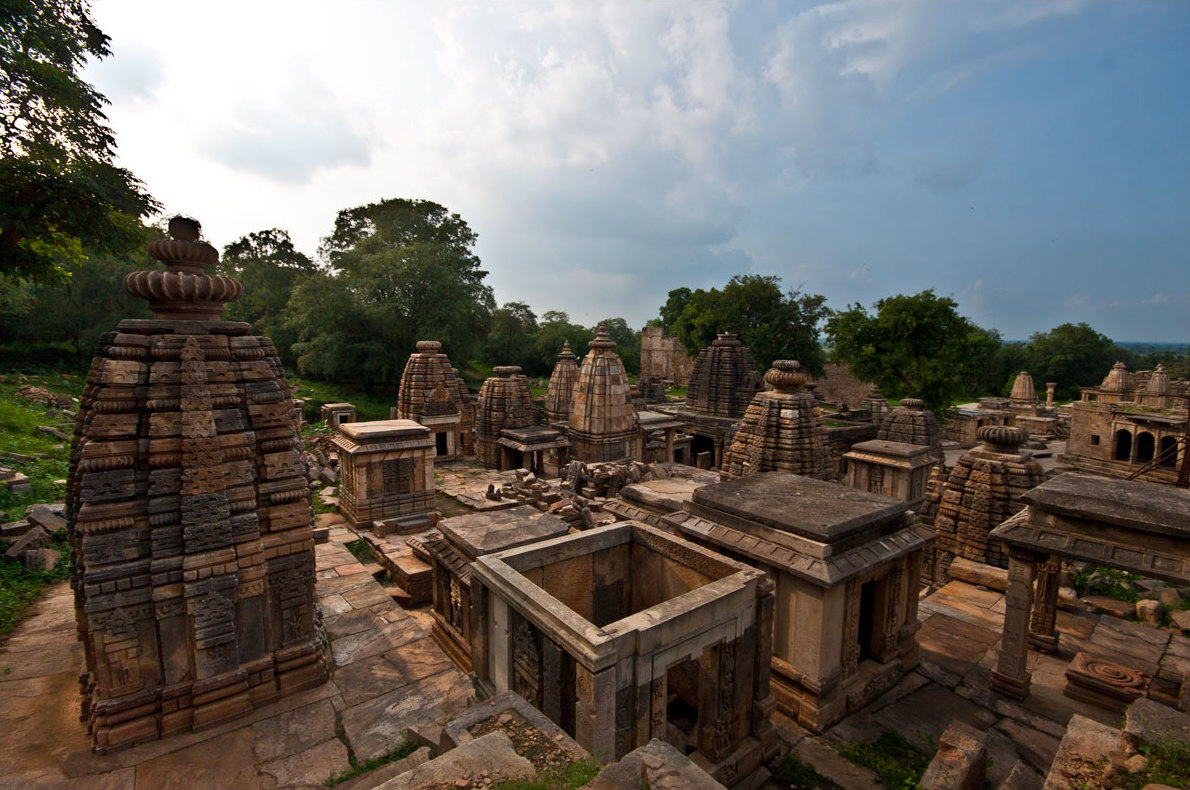 Bateshwar Temple Complex, Morena District, Madhya Pradesh